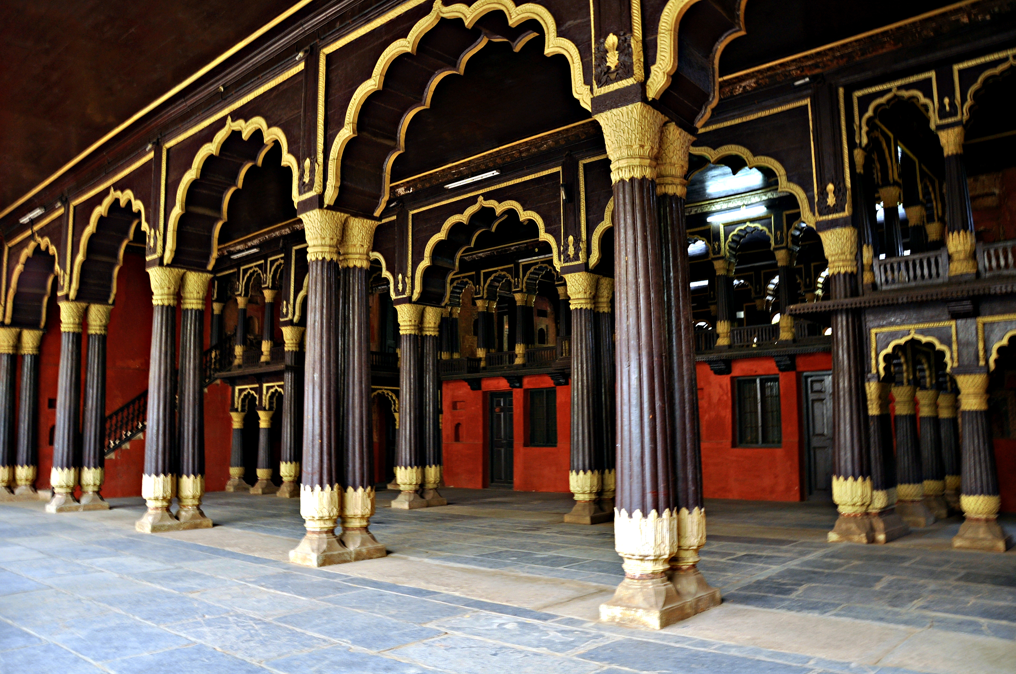 Tipu Sultan's Palace